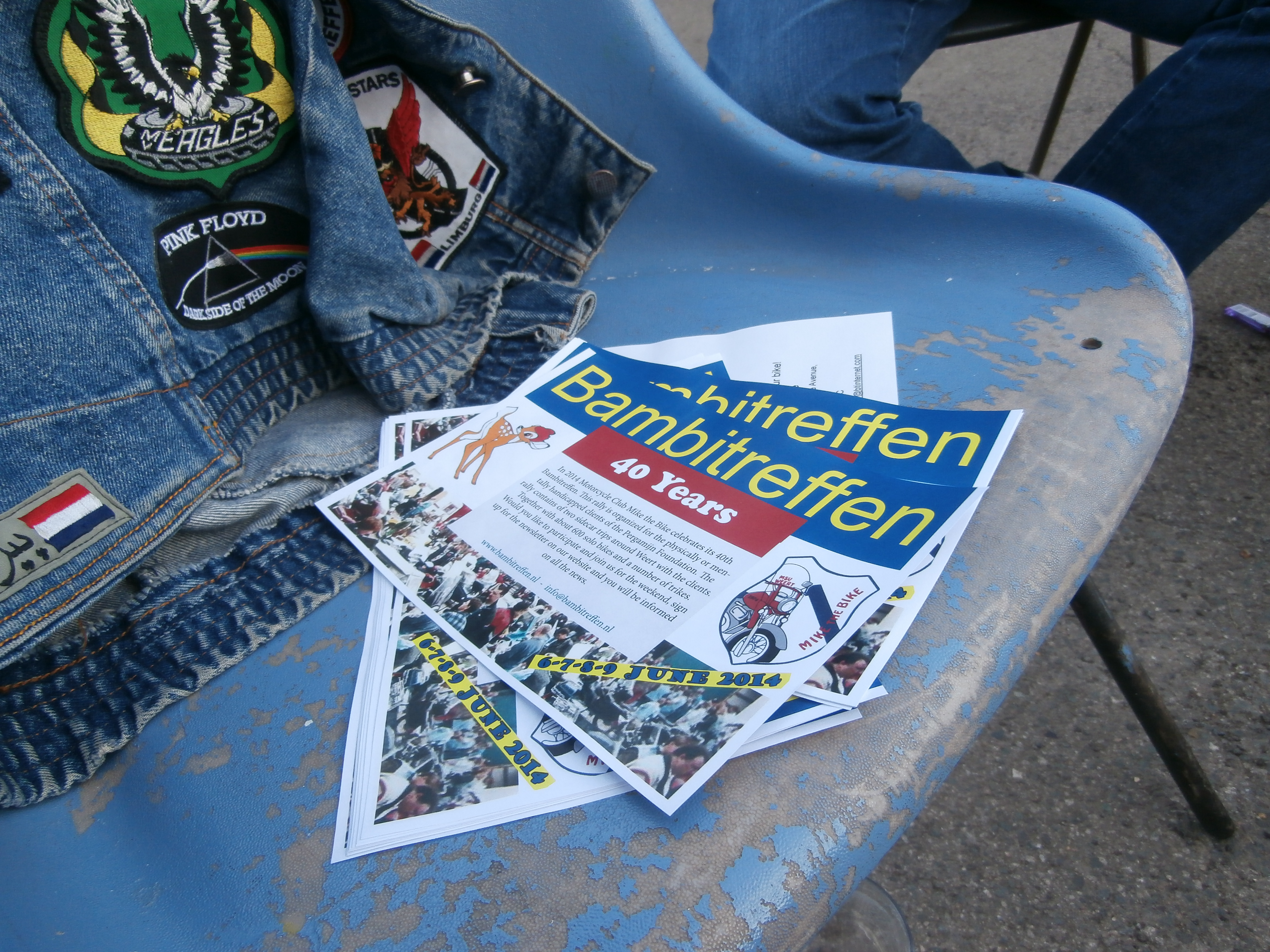 Flyer Bambitreffen (English)